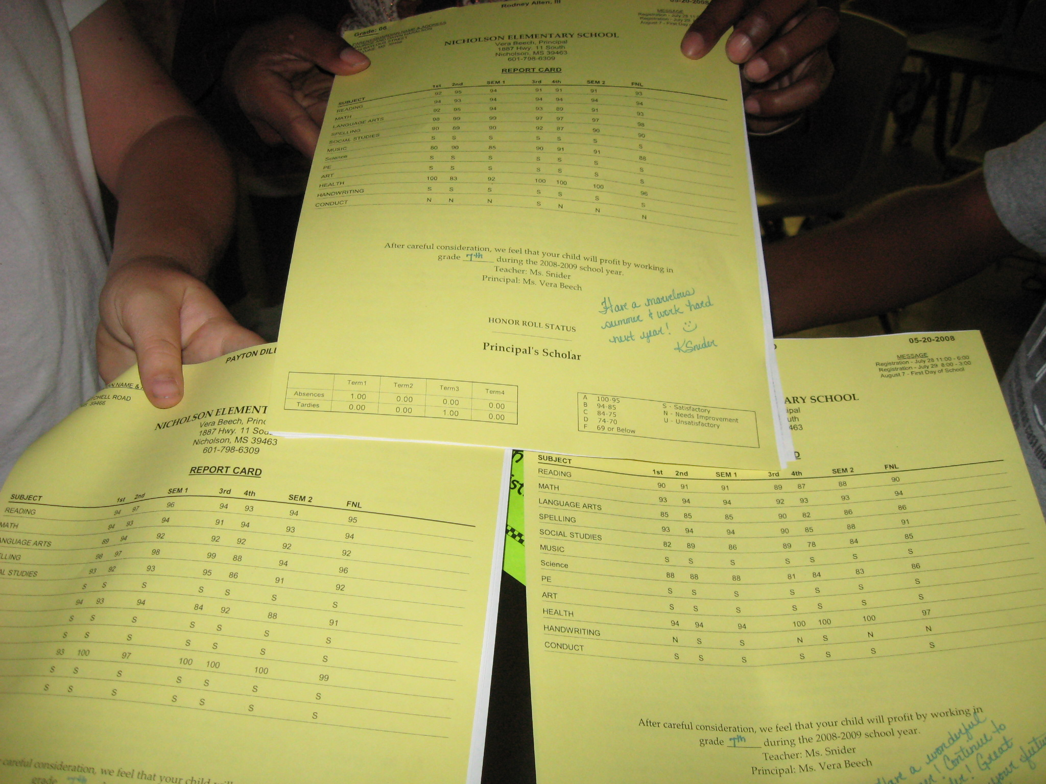 Students holding report cards.